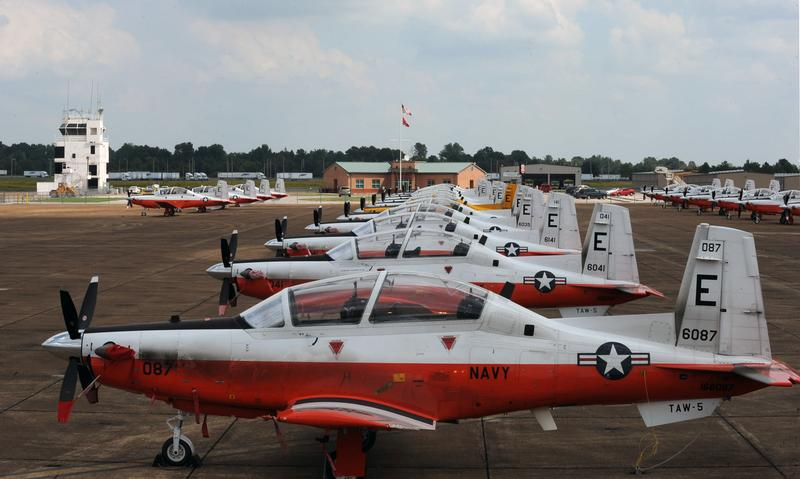 T-6B Texan II training aircraft assigned to Training Wing 5 from Pensacola, Fla., are staged on the tarmac